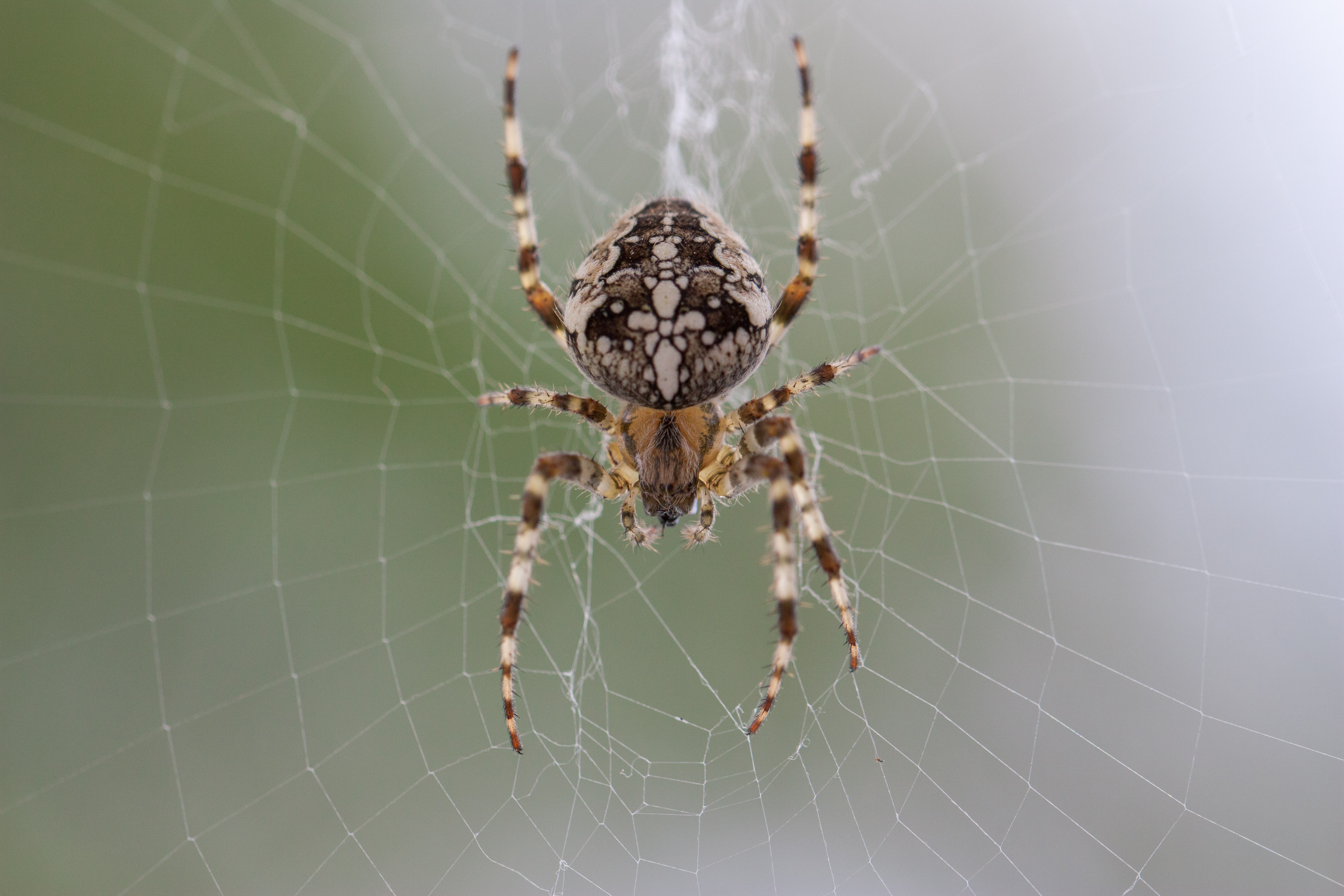 Edderkopp, Araneus diadematus, Hjulspinner, Araneidae, Trondheim, Norge